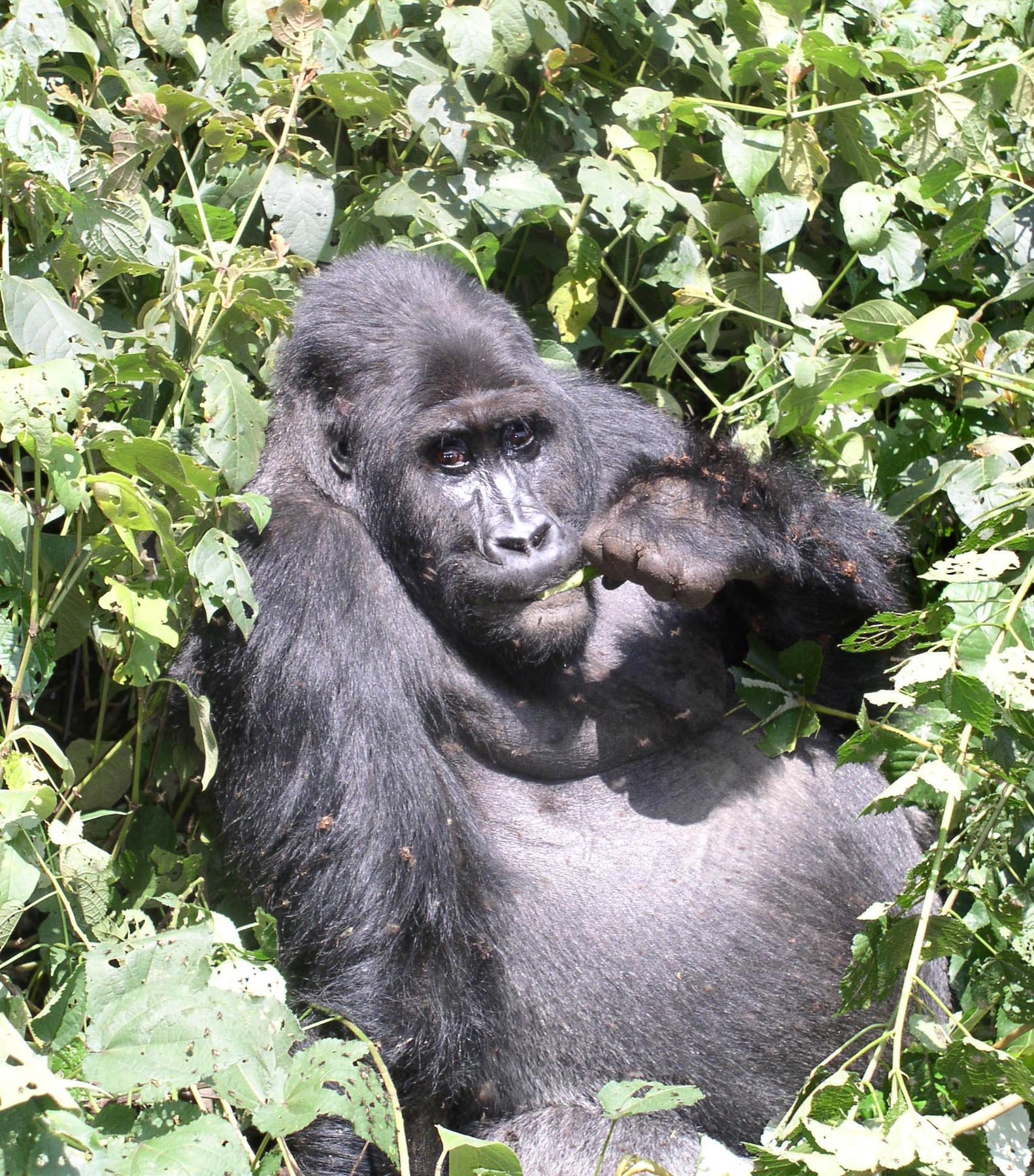 A mountain gorilla in the Kahuzi-Biega Reserve, Democratic Republic of the Congo